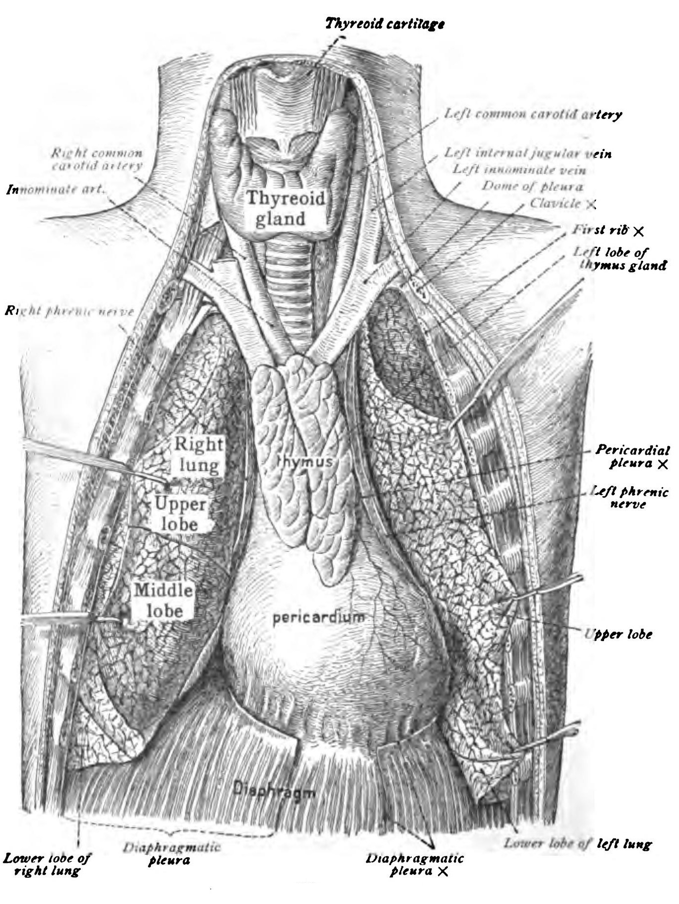 An anatomical illustration from the 1906 edition of Sobotta's Atlas and Text-book of Human Anatomy with English Terminology